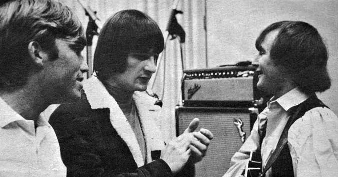 Photo of producer Terry Melcher (left) in the recording studio with the Byrds Gene Clark (center) and David Crosby (right) listening to a take. Given the date of the photo, they were probably working on the Turn, Turn, Turn album when the photo was taken. This newspaper was produced for KRLA Radio, Los Angeles, in the mid 1960s.